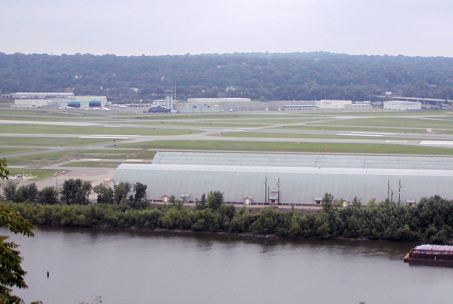 Saint Paul Holman Field, Saint Paul, Minnesota